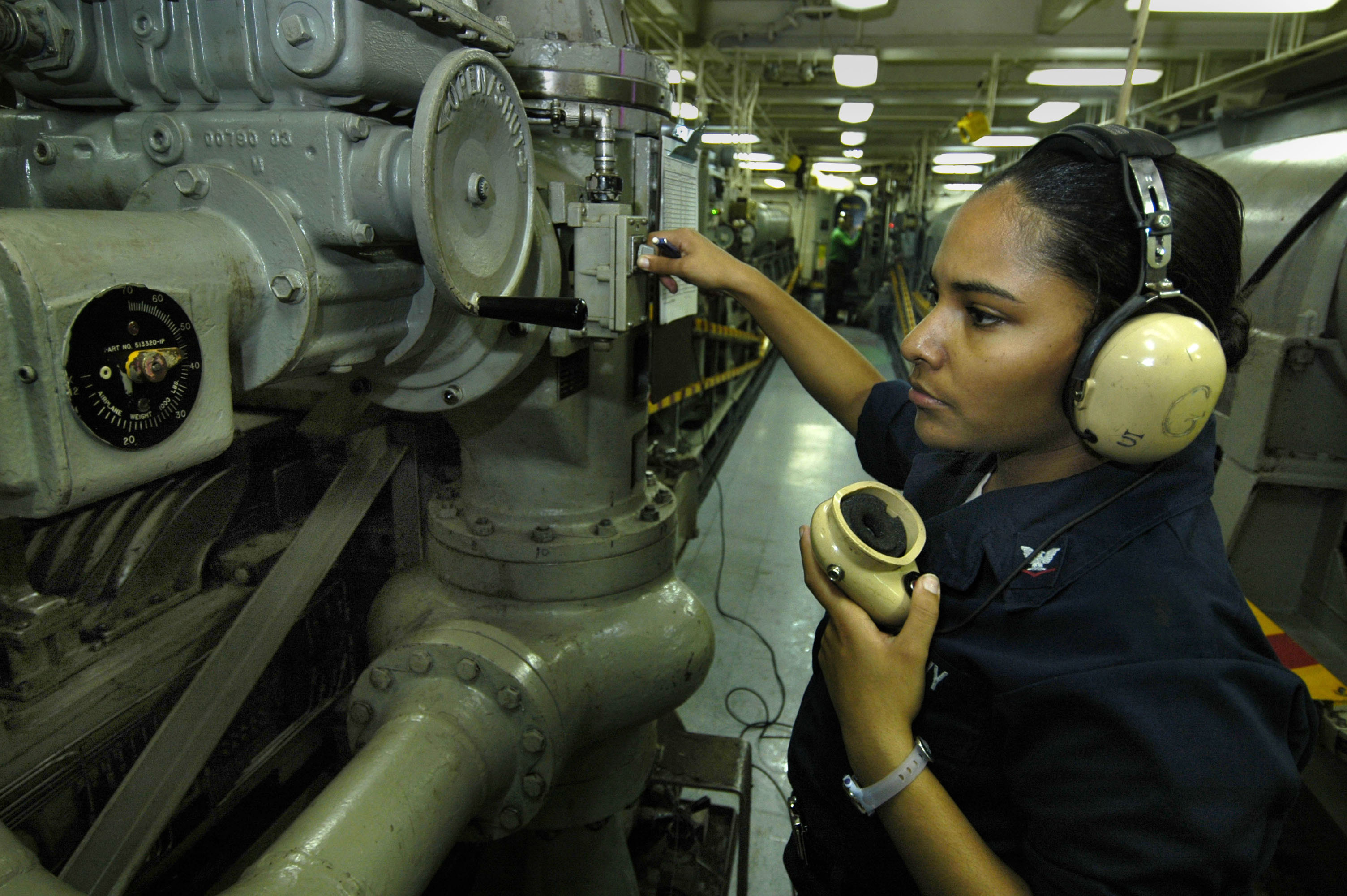 Navy Petty Officer 3rd Class Shantell Robinson monitors arresting gear pressure gauges aboard the aircraft carrier USS Kitty Hawk (CV 63) during flight operations in the Pacific on Oct. 26, 2005. Kitty Hawk's arresting gears control the recovery of aircraft landing on the flight deck, bringing them to a halt within 120 feet. Robinson, of New Orleans, La., is a Navy aviation boatswain's mate onboard the carrier.